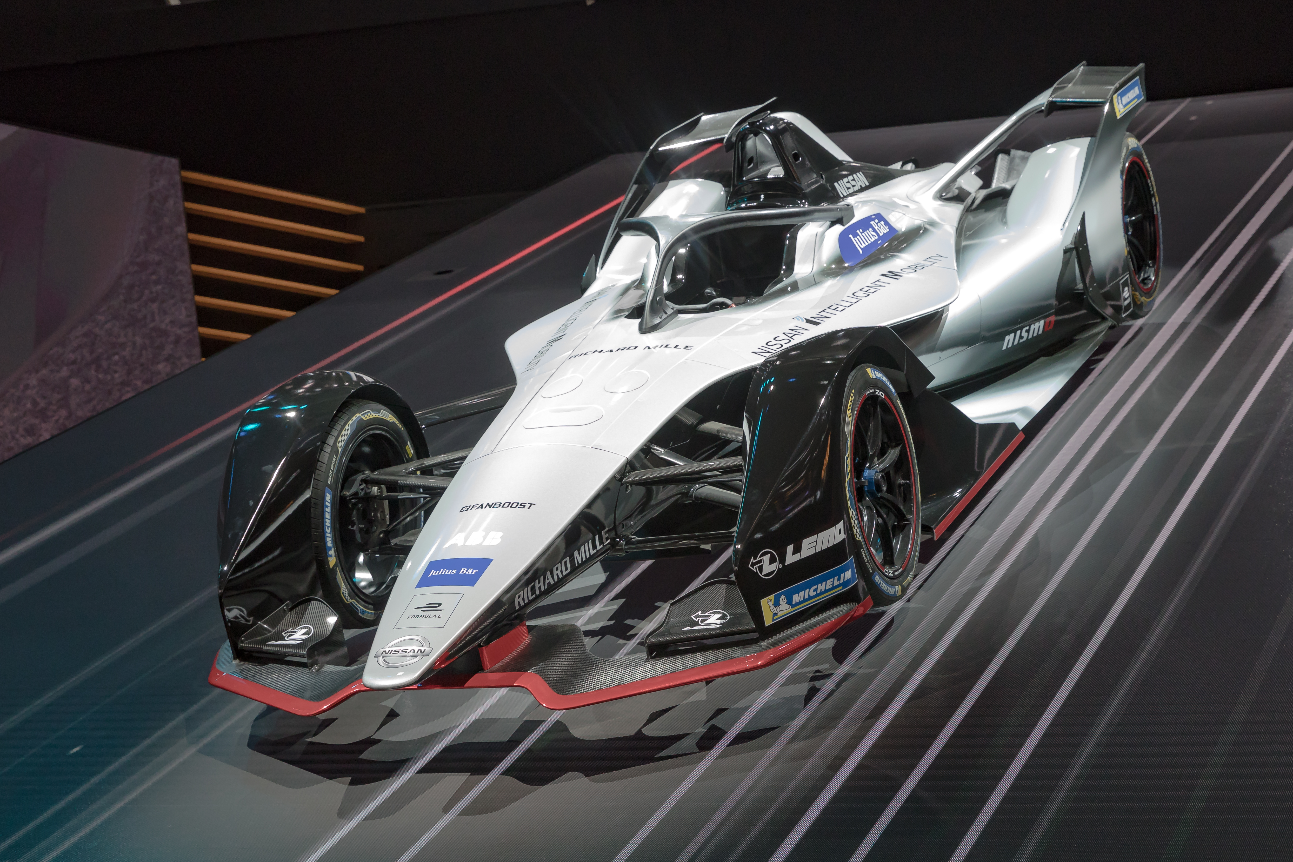 Spark SRT 05e of Nissan e.dams displayed at Geneva International Motor Show 2018, Le Grand-Saconnex